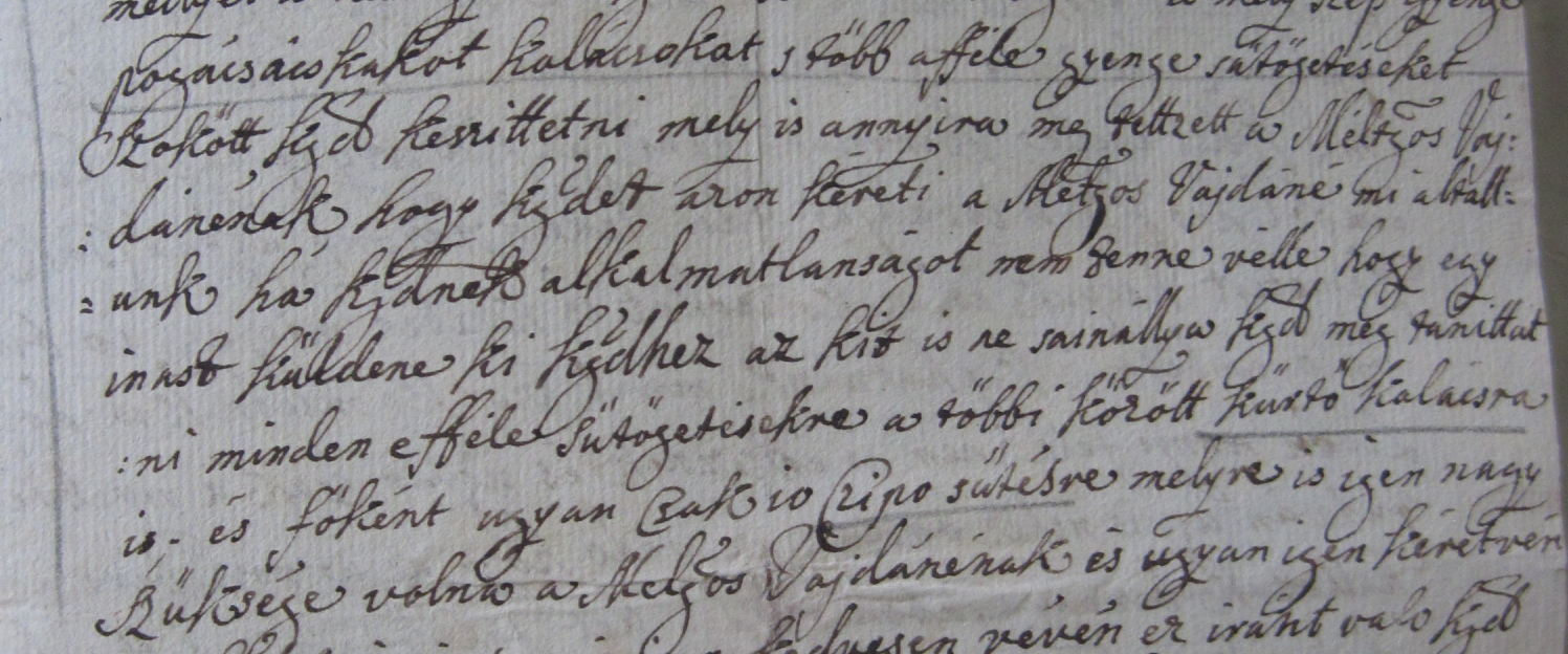 Excerpt from a letter written by Ágnes Ferattiné Kálnoki about Iași in 1723, in which the term kürtő kaláts first appears. The original of the letter is in the State Archives of Cluj, Romania